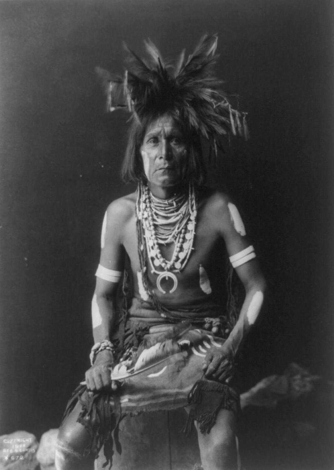 "Snake priest", plate #418 from The Hopi Portfolio, vol. 12 of The North American Indian. A search of the online version of The North American Indian by Edward S. Curtis using that description finds the following supplemental information by Curtis: "The white markings, typifying the antelope, indicate that the subject is accoutred for the semi-final day of the Snake dance, when the public performance consists of the dance and the ceremonial race of the Antelope fraternity."